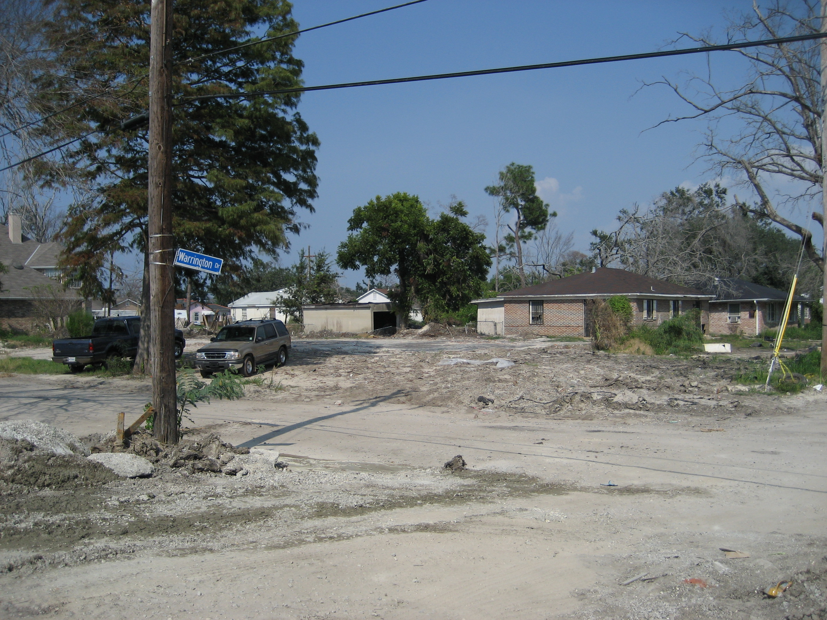 New Orleans after Hurricane Katrina: Corner of Wilton & Warrington, near lower breech of the London Avenue Canal. See Image:WiltonWarringtonNovByLondonBreech.jpg for an image of this same intersection the previous November. The most severely damaged buildings have been demolished and debris and silt hauled away.